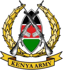 Logo of the Kenyan Army